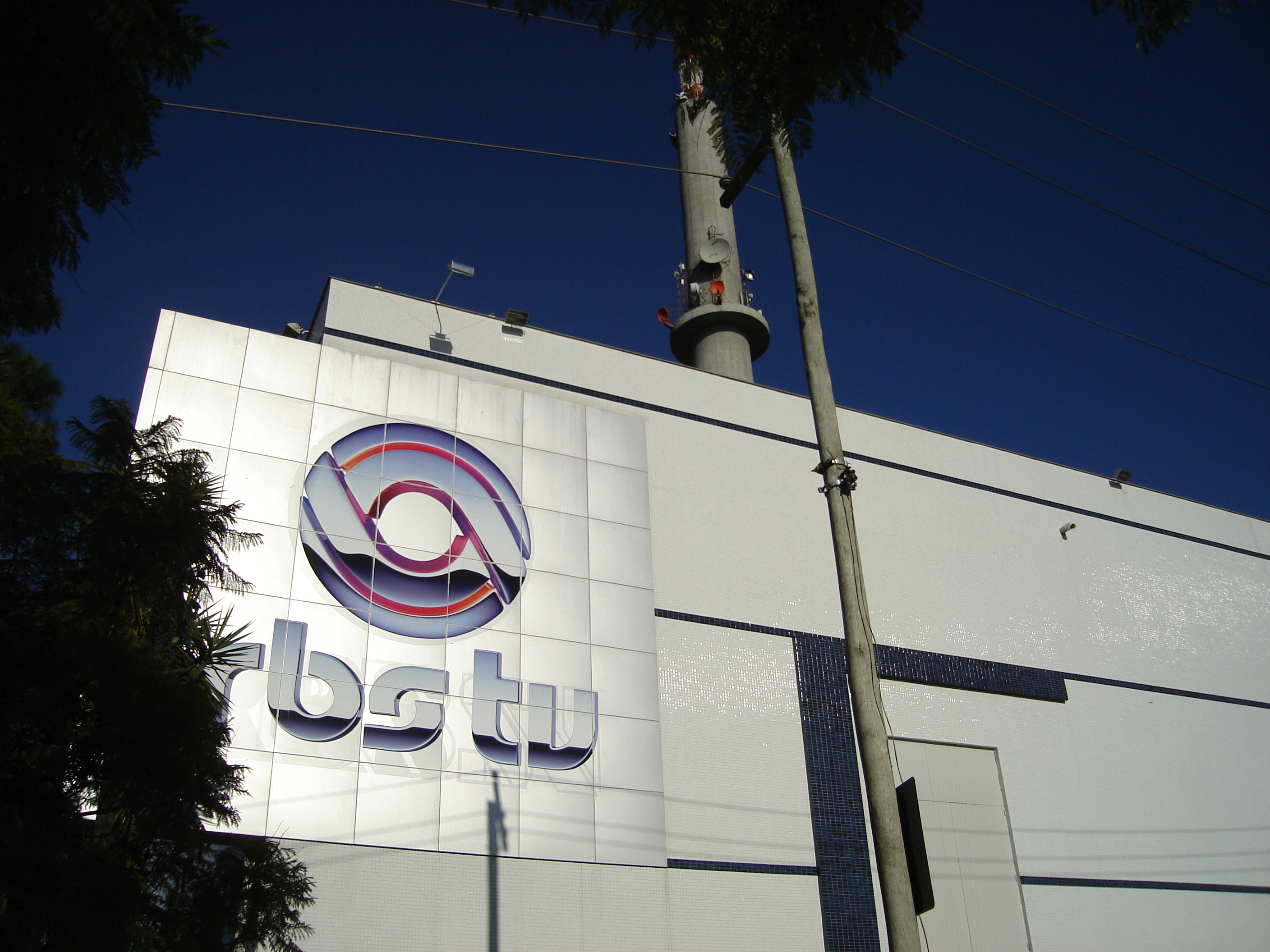 RBS TV headquarters.